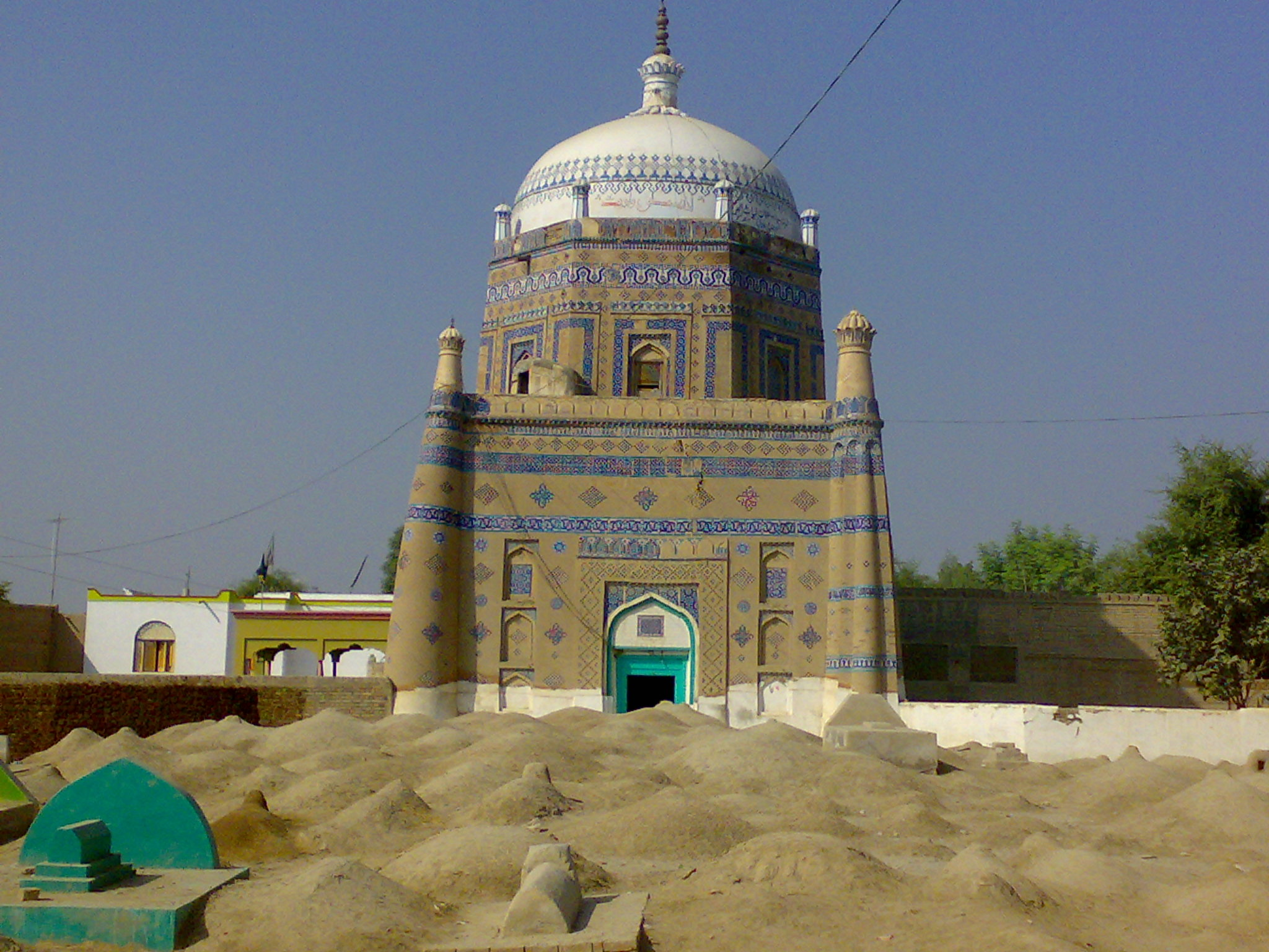 The shrine of Pir Adil Shah with adjoining graveyard, Dera Ghazi Khan This is a photo of a monument in Pakistan identified as the PB-P-21